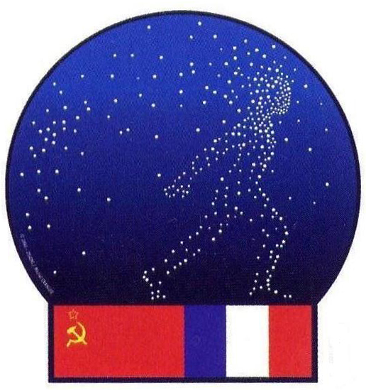 Patch of the Soyuz T-6 mission (1982) which brought Jean-Loup Chrétien, first Frenchman and Western European in space.